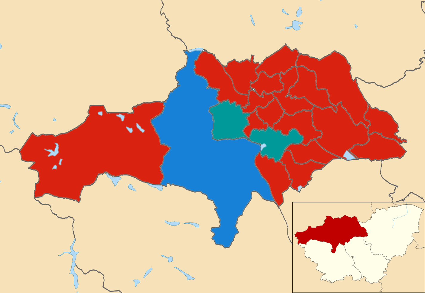 Results of the 2012 local elections in Barnsley Colours: Conservative Labour Barnsley Independent Group